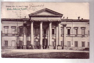 cvfg